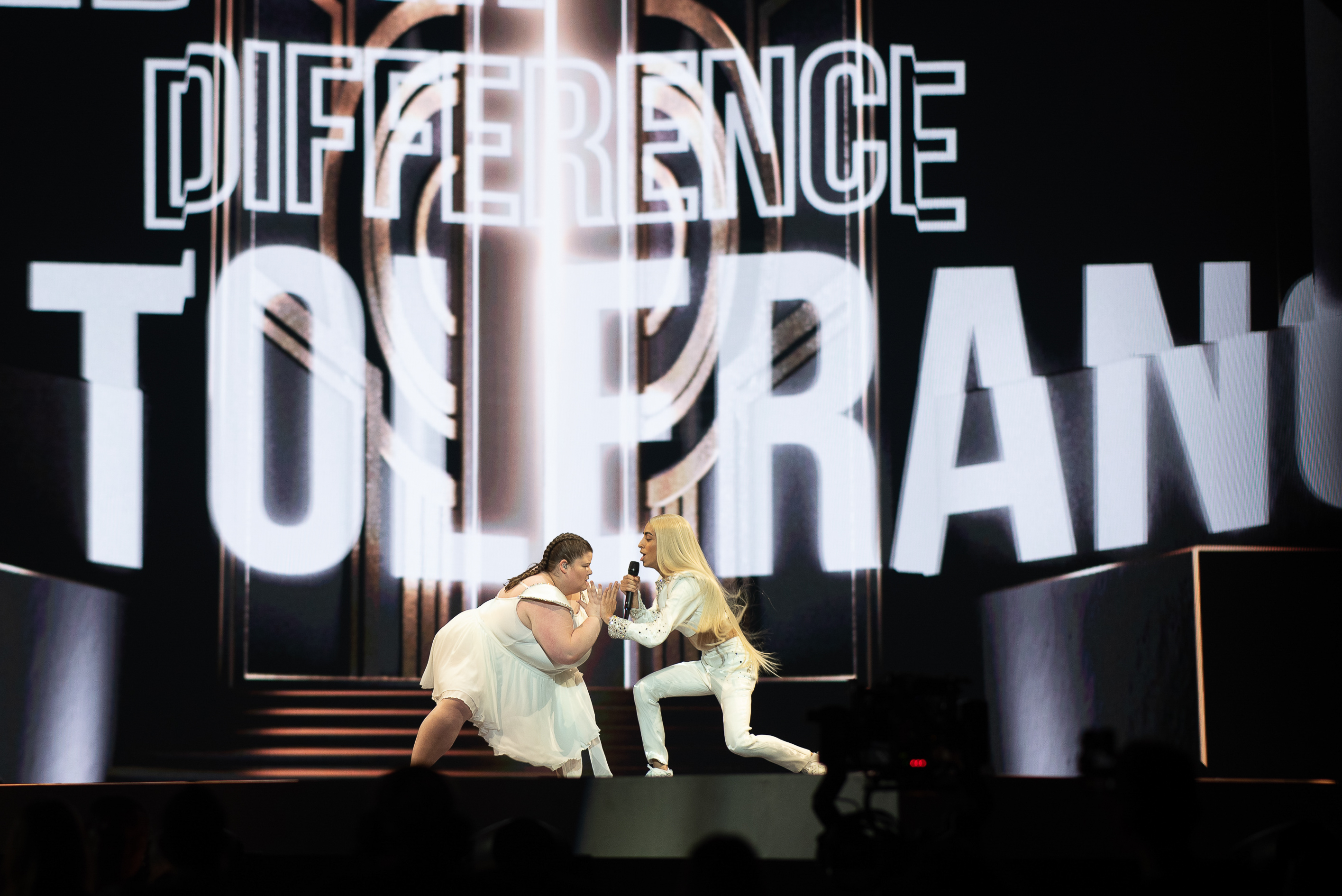 At the 2019 Eurovision Song Contest Grand Final Dress Rehearsal